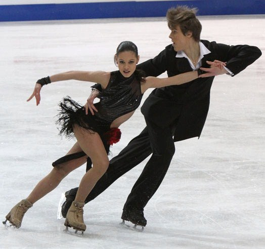 Elena Ilinykh / Nikita Katsalapov at the 2011 European Figure Skating Championships